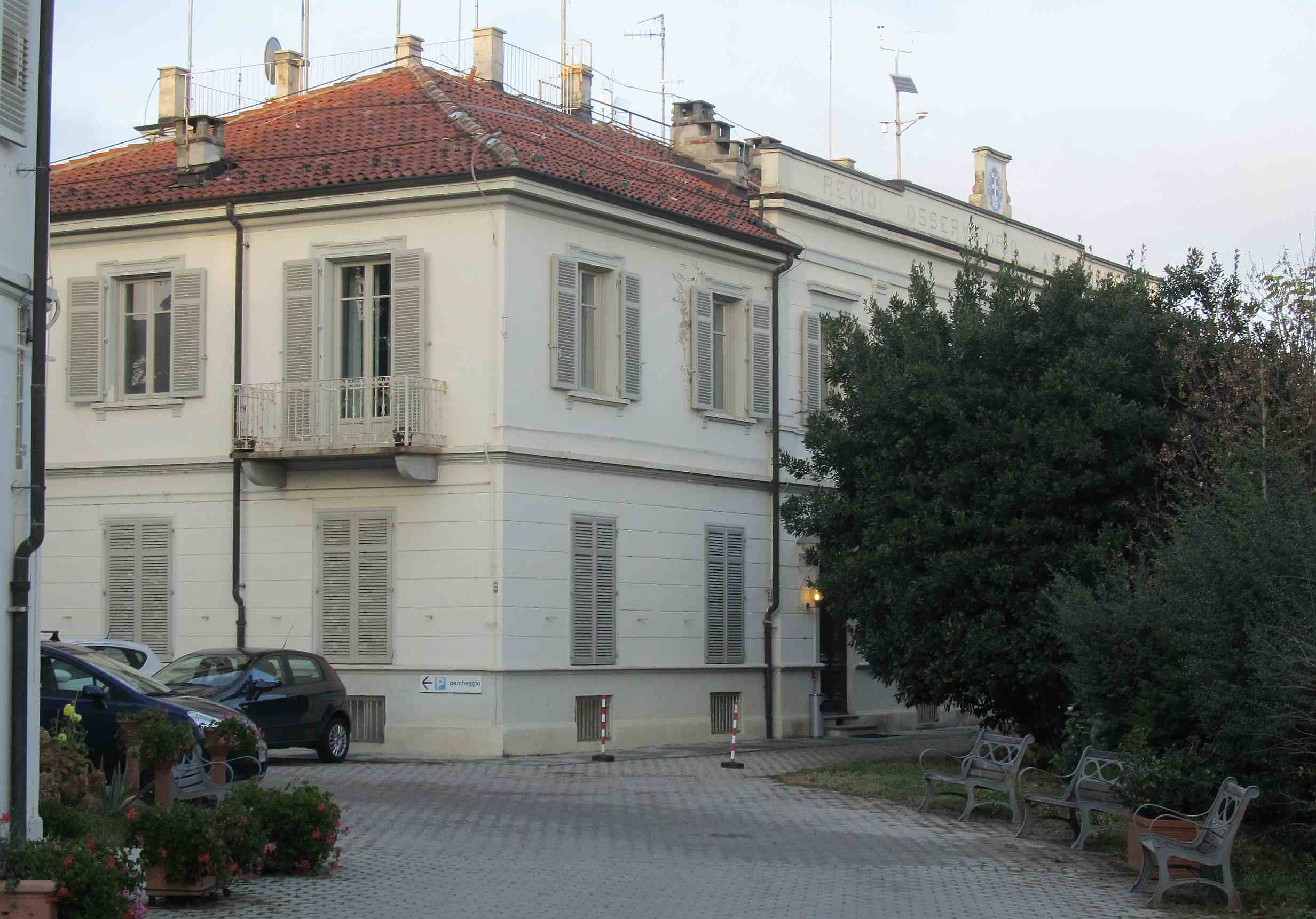 One of the historical buildings of Pino Torinese observatory (TO, Italy)